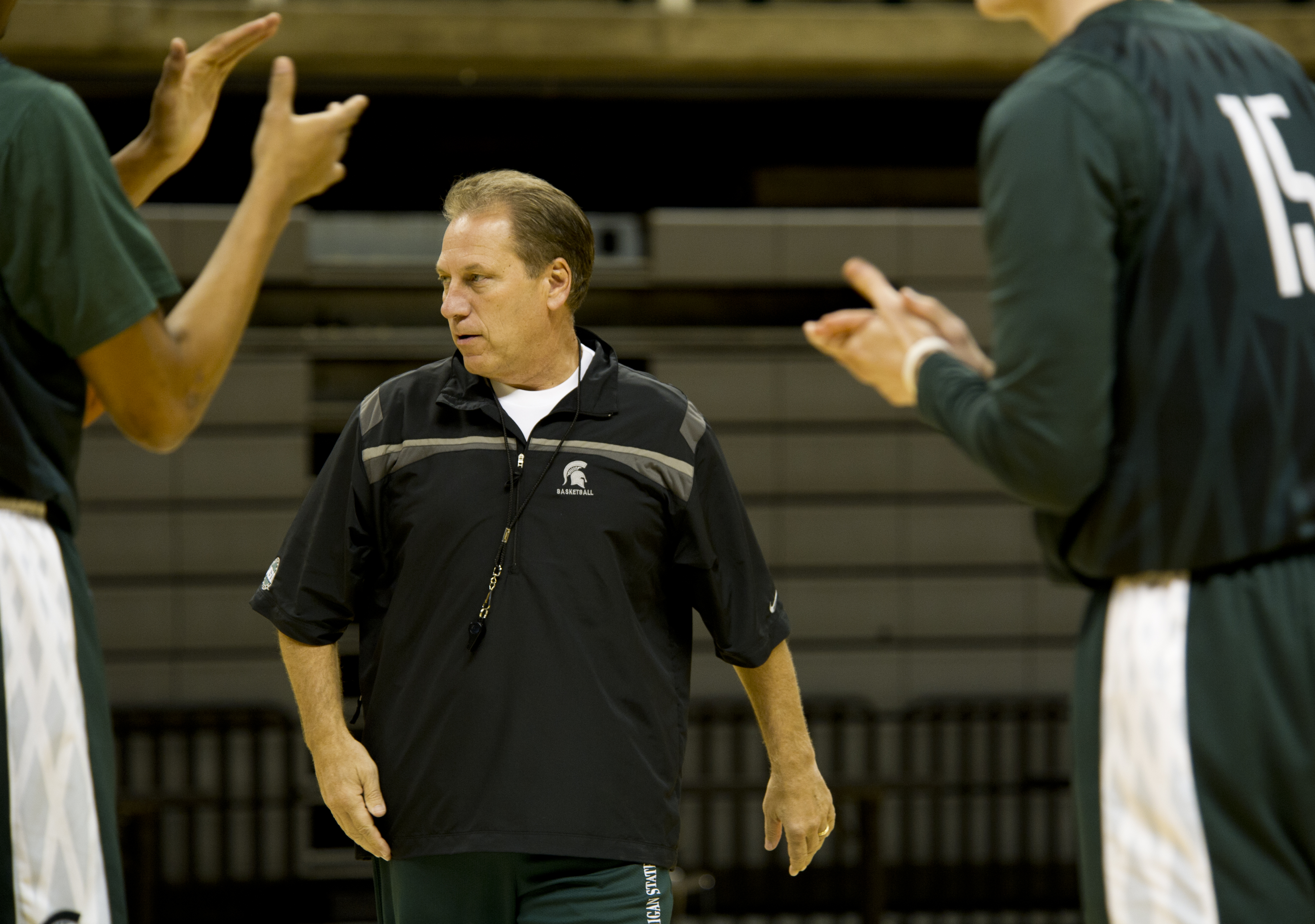 LANSING, Mich. (Oct. 25, 2011) Tom Izzo, head coach of the Michigan State University Spartans, prepares his team for a game against the University of North Carolina in the inaugural Quicken Loans Carrier Classic basketball game. The game will be played aboard the aircraft carrier USS Carl Vinson (CVN 70) on Veteran's Day, Nov. 11. (U.S. Navy photo by Mass Communication Specialist 2nd Class David Danals/Released)